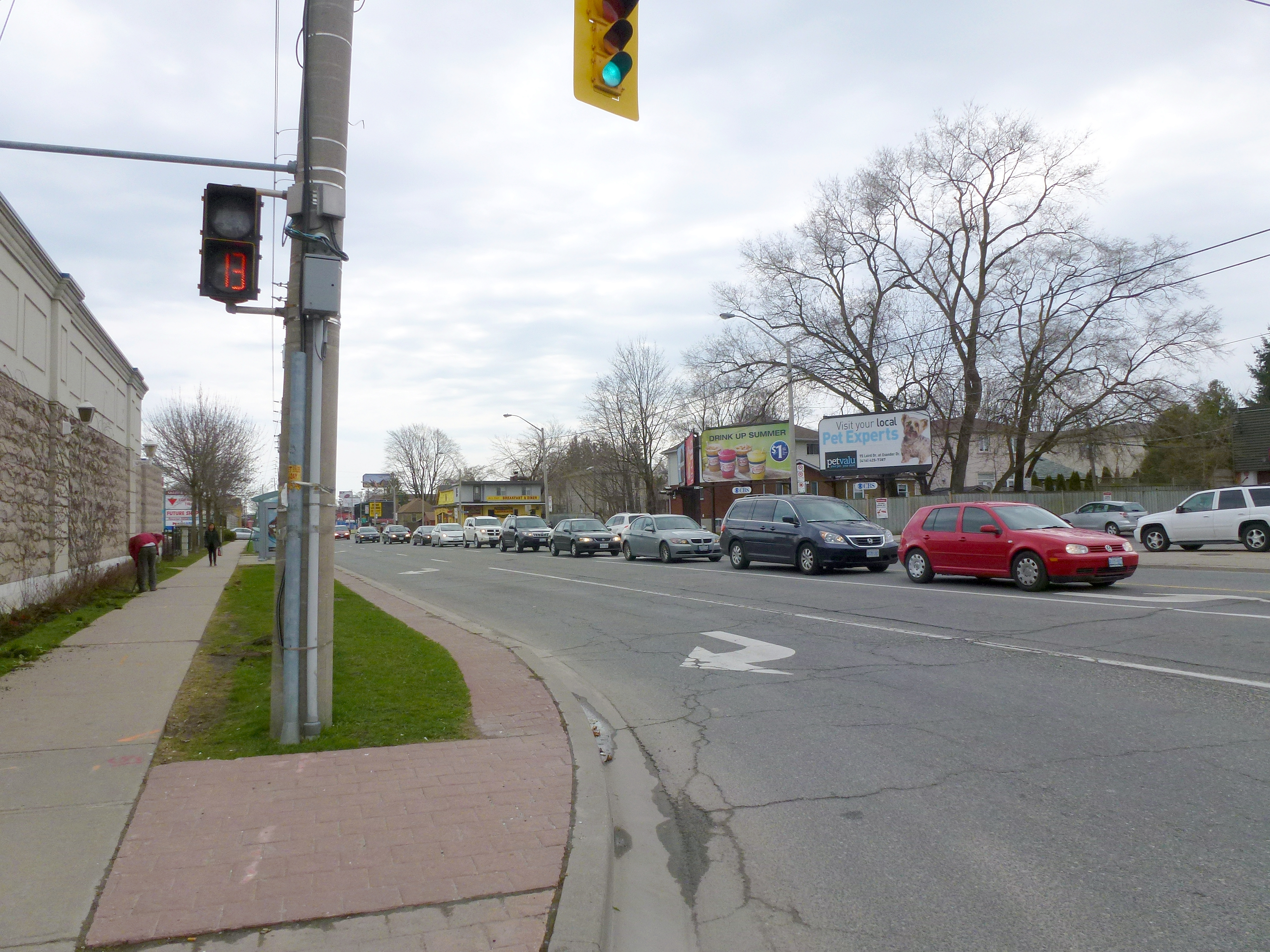 Parts of panoramas of intersections where there will be Eglinton Crosstown LRT stations, GPS embedded, taken 2013 04 25 (56).JPG On April 9, 2013, the day the first tunnel boring machine started to bore the Eglinton Crosstown, I bought a TTC day pass and got off to take "before" pictures of the site of every future underground station between Mount Dennis and Yonge Street. On April 25 I took "before" photos of the future sites of stations east of Yonge I plan to return for "after" pictures when the Crosstown opens in 2020. This photo was taken near the future site of the Laird Drive LRT station.